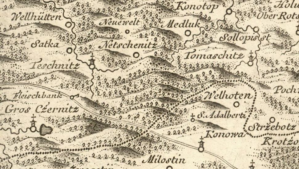 The region of Deštnice on the Müller map from 1720